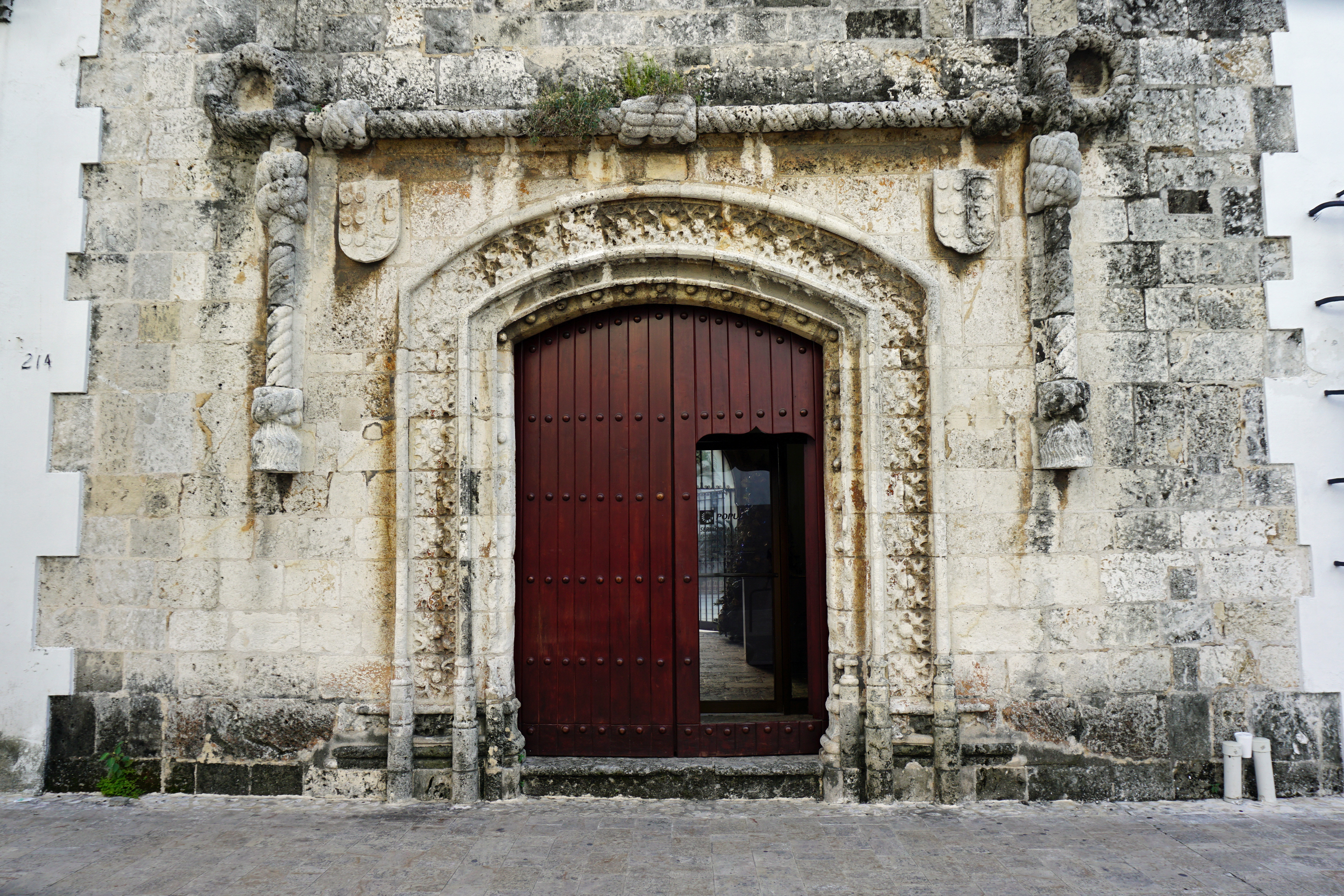 Casa del Cordon, Colonial City, Santo Domingo, Dominican Republic.